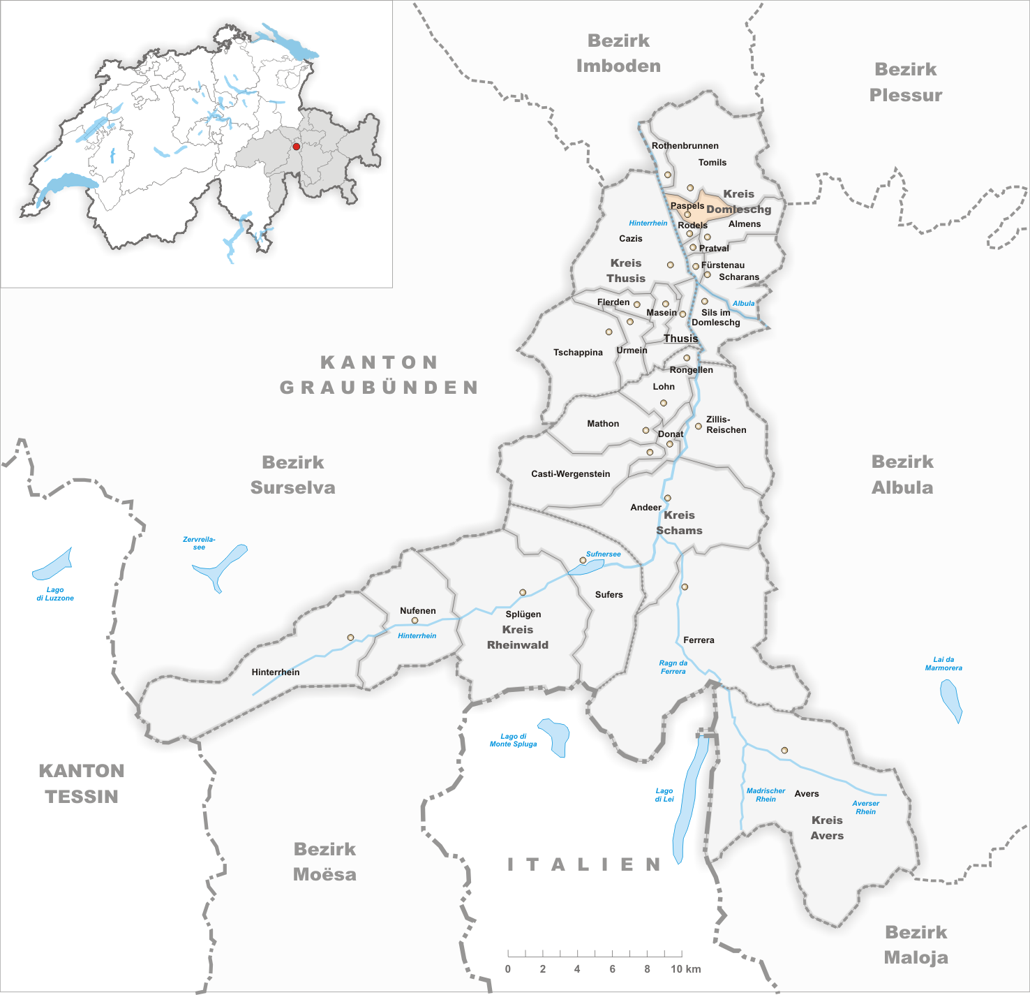 Municipality Paspels